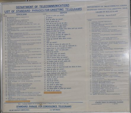 List of standard messages for telegrams, India